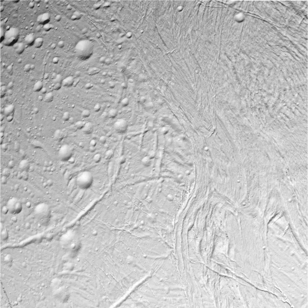 This image was taken during Cassini's first close approach to Enceladus, and was taken in visible light with the Narrow Angle Camera from a distance of approximately 22,330 kilometers (13,880 miles). Resolution in the image is 130 meters (427 feet) per pixel. This view shows a region of grooved terrain known as Samarkand Sulci (just right of center running up-down in the image) as well as a region of smooth (at Voyager resolution) terrain called Sarandib Planitia (upper right).